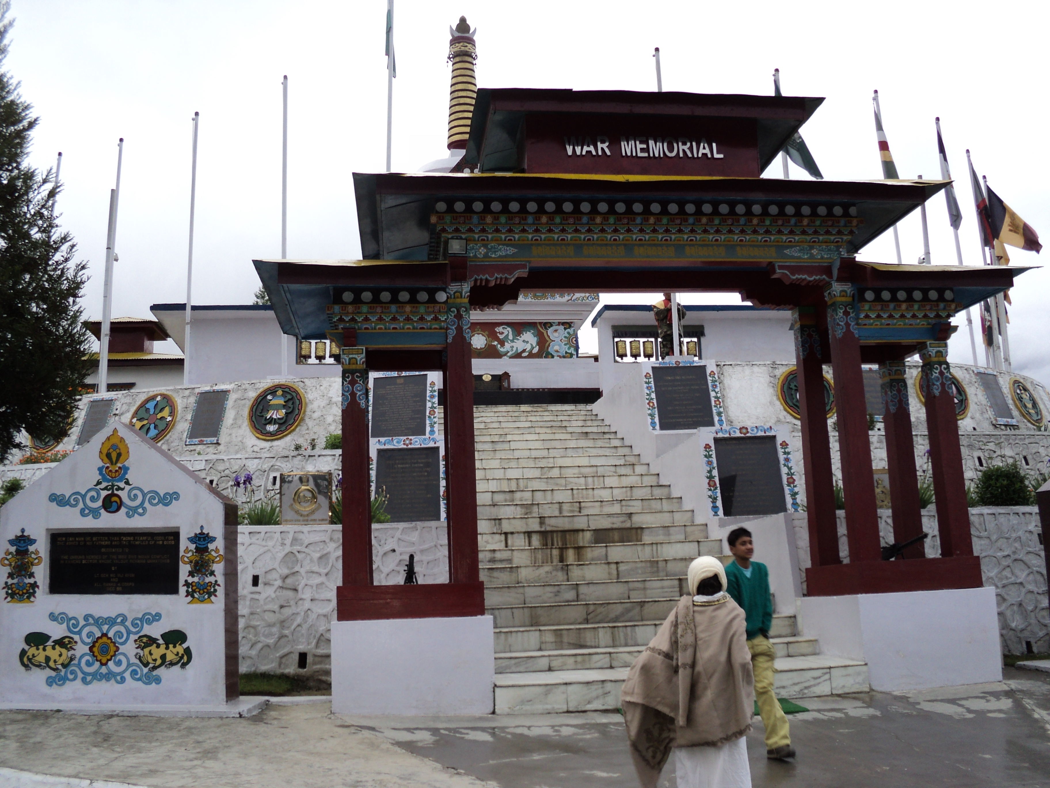 War Memorial Tawang